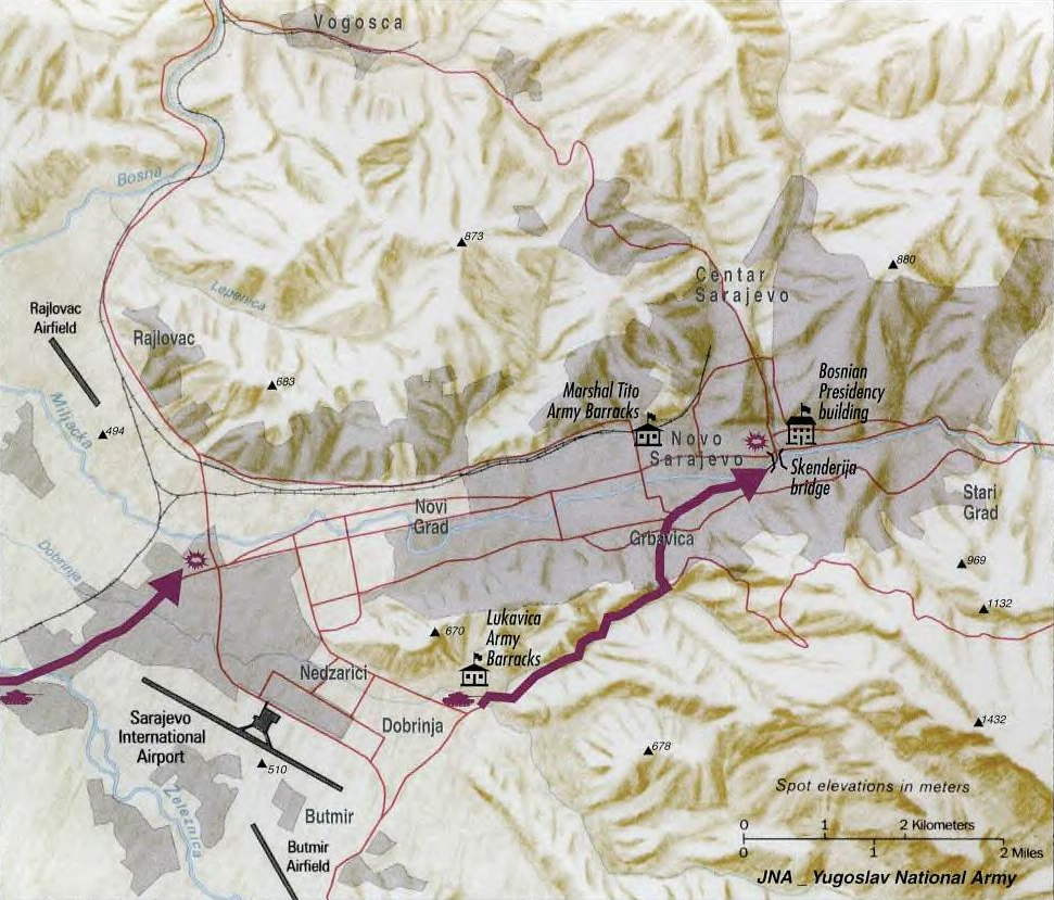 CIA produced map taken from [1]